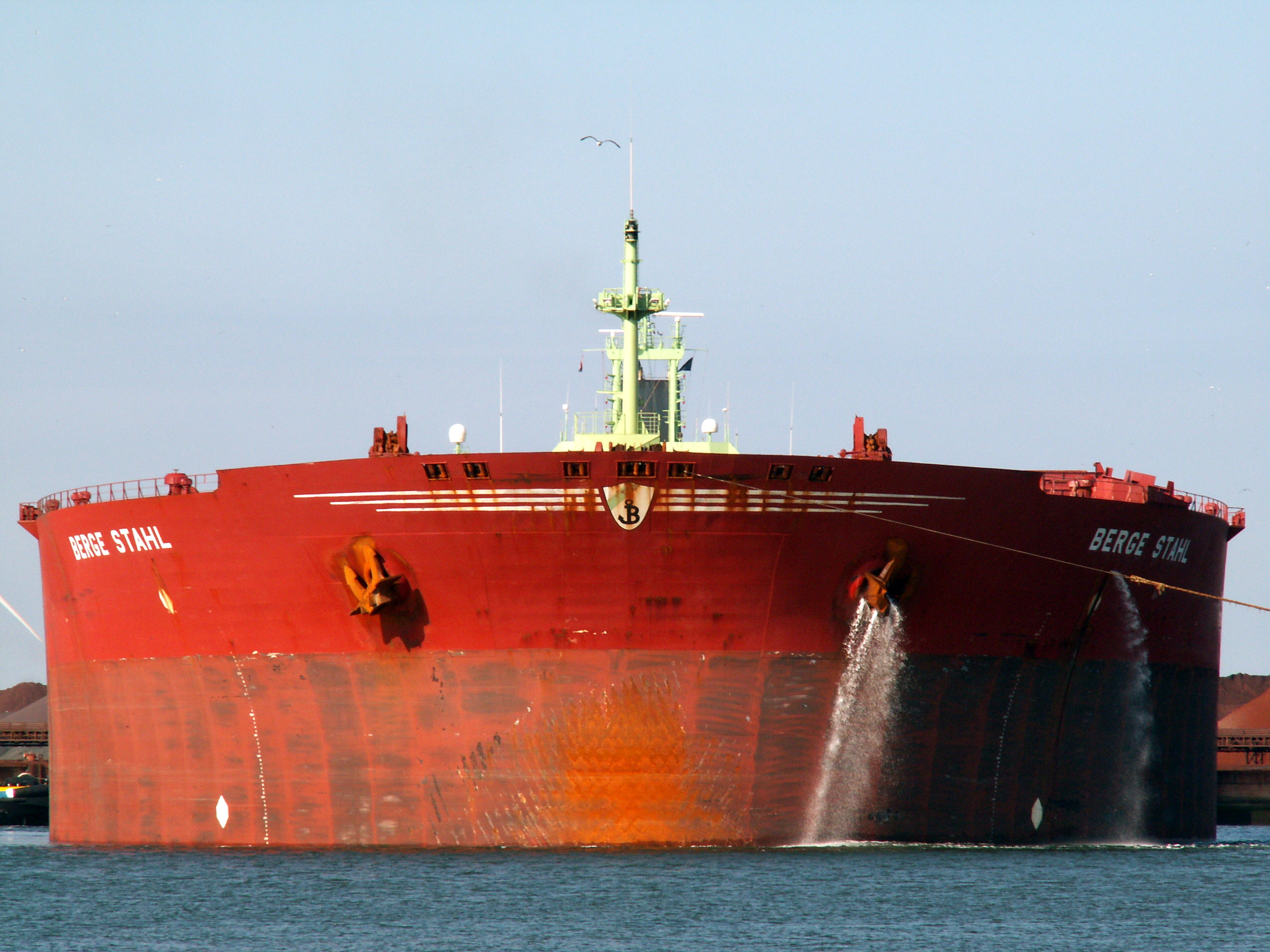 Berge Stahl turned around by two tug's at the EECV terminal at the entrance of the CalandKanaal, Port of Rotterdam, The Netherlands, to sail off towards open seas.